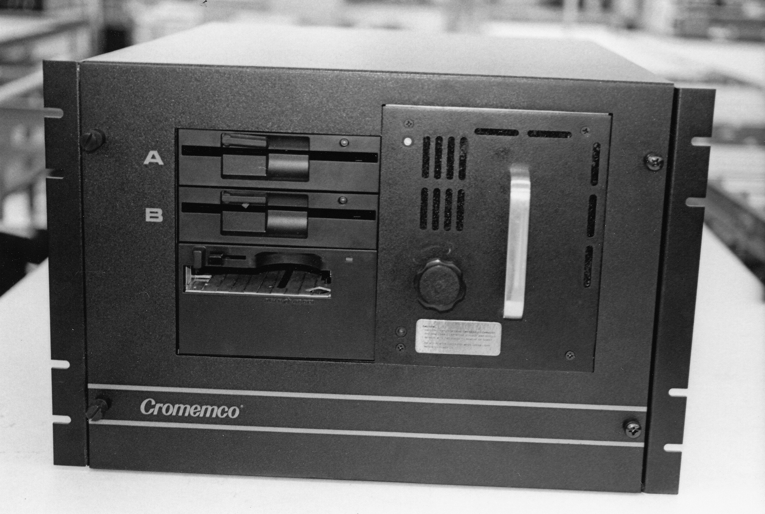 USAF Mission Planning System for F-16 based on the Cromemco CS-250 Computer